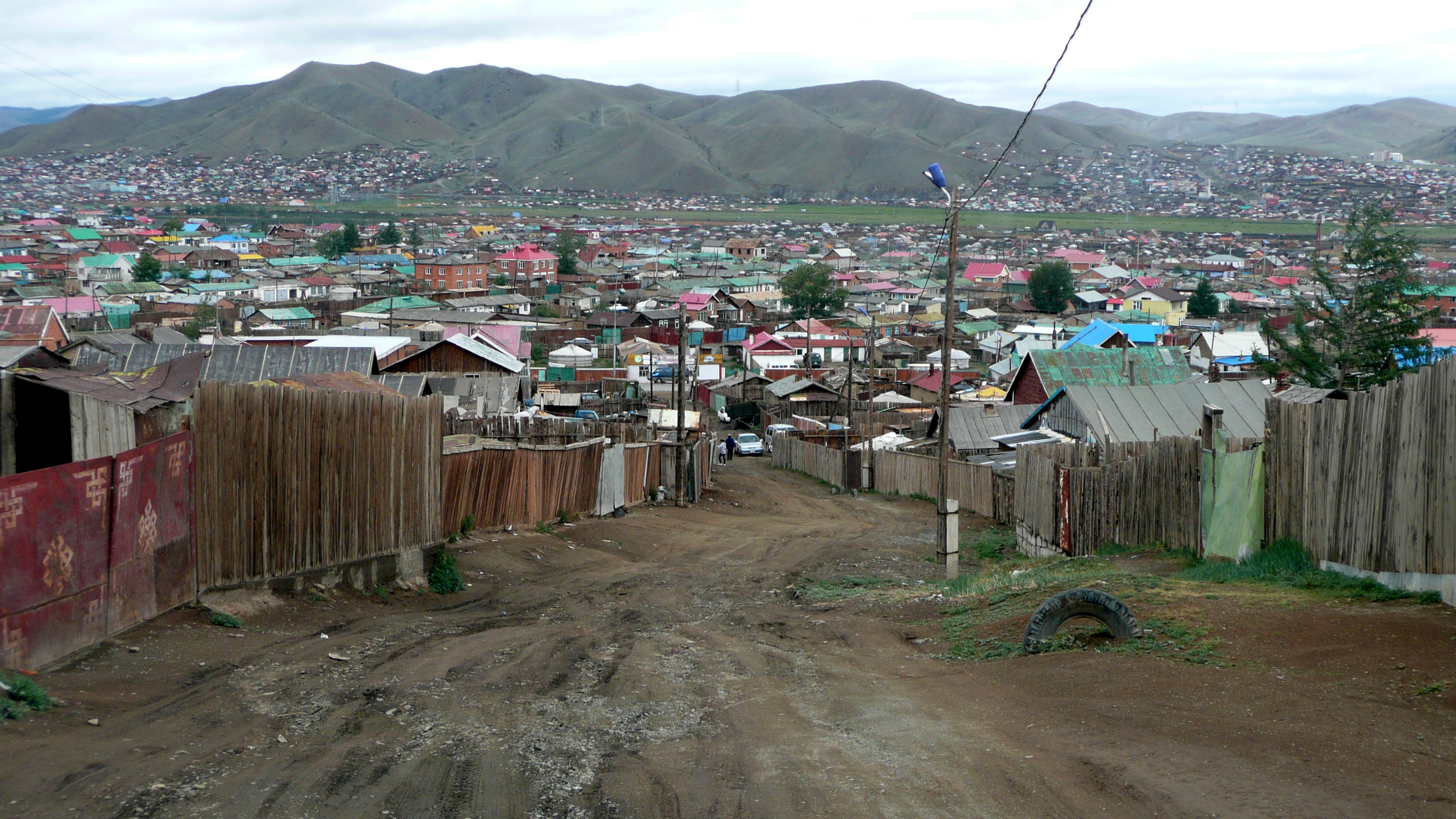 Yurts in Ulan Bator